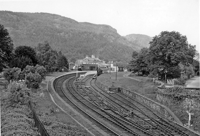 Betws-y-Coed railway station. View northward, towards Llandudno Junction; ex-LNW Llandudno Junction - Blaenau Ffestiniog line -- still open! Note the Camping Coaches in the siding